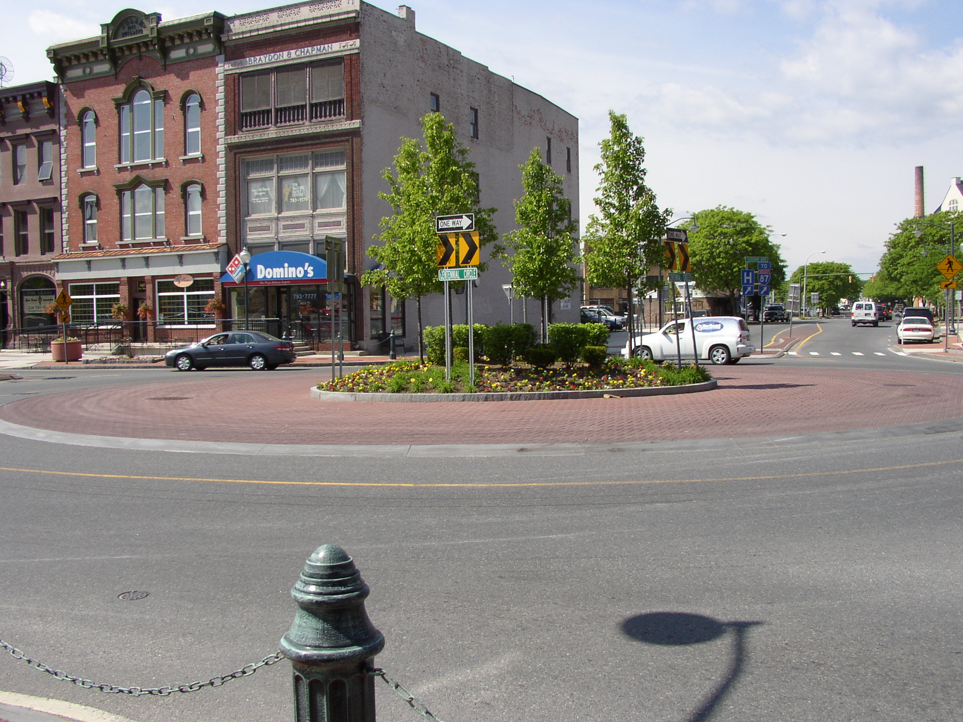 Centennial Circle in Glens Falls, New York as viewed from sidewalk between Warren and Ridge Streets facing generally west.